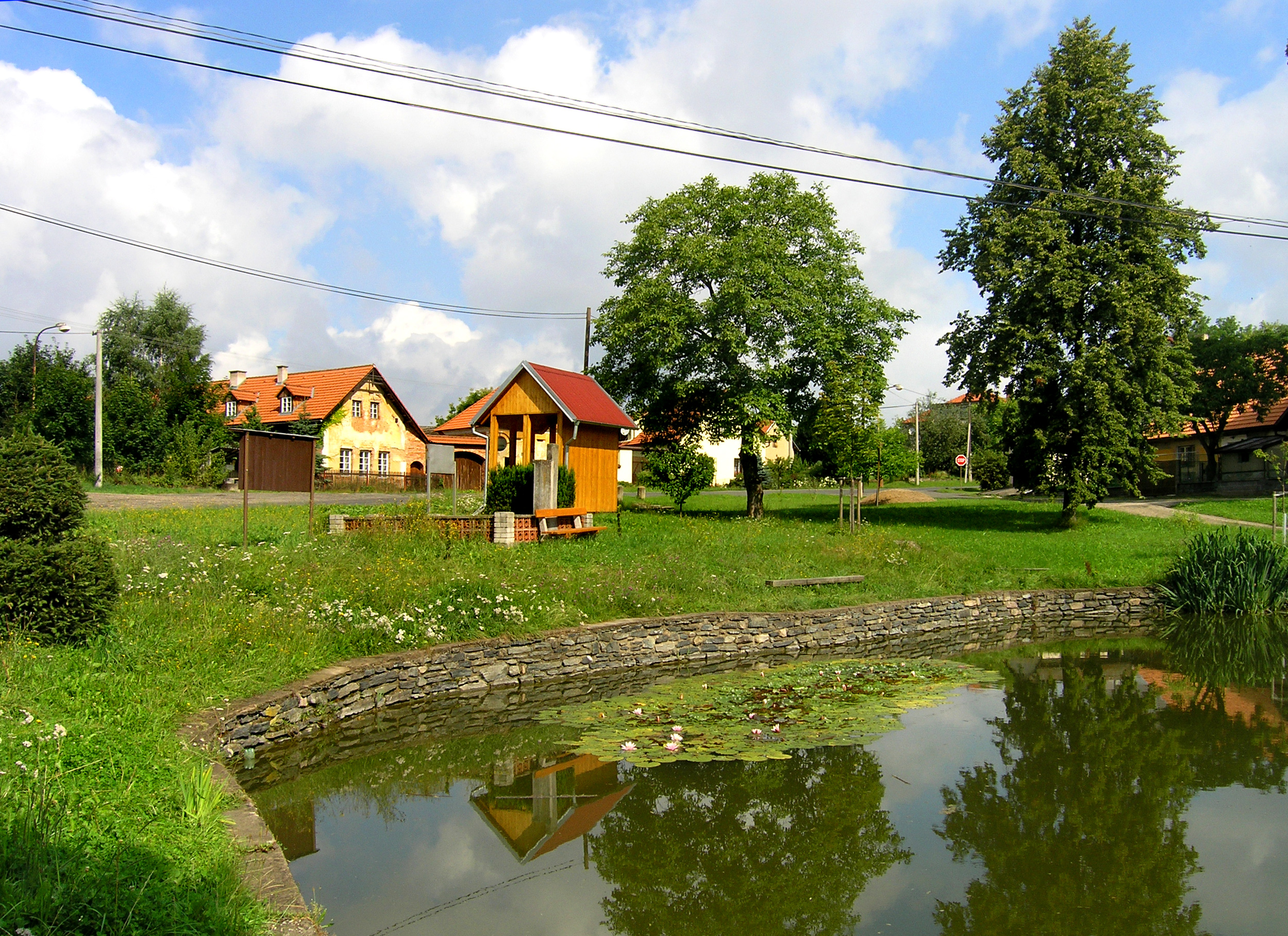 Common pond in Hranice, part of Slavošov, Czech Republic